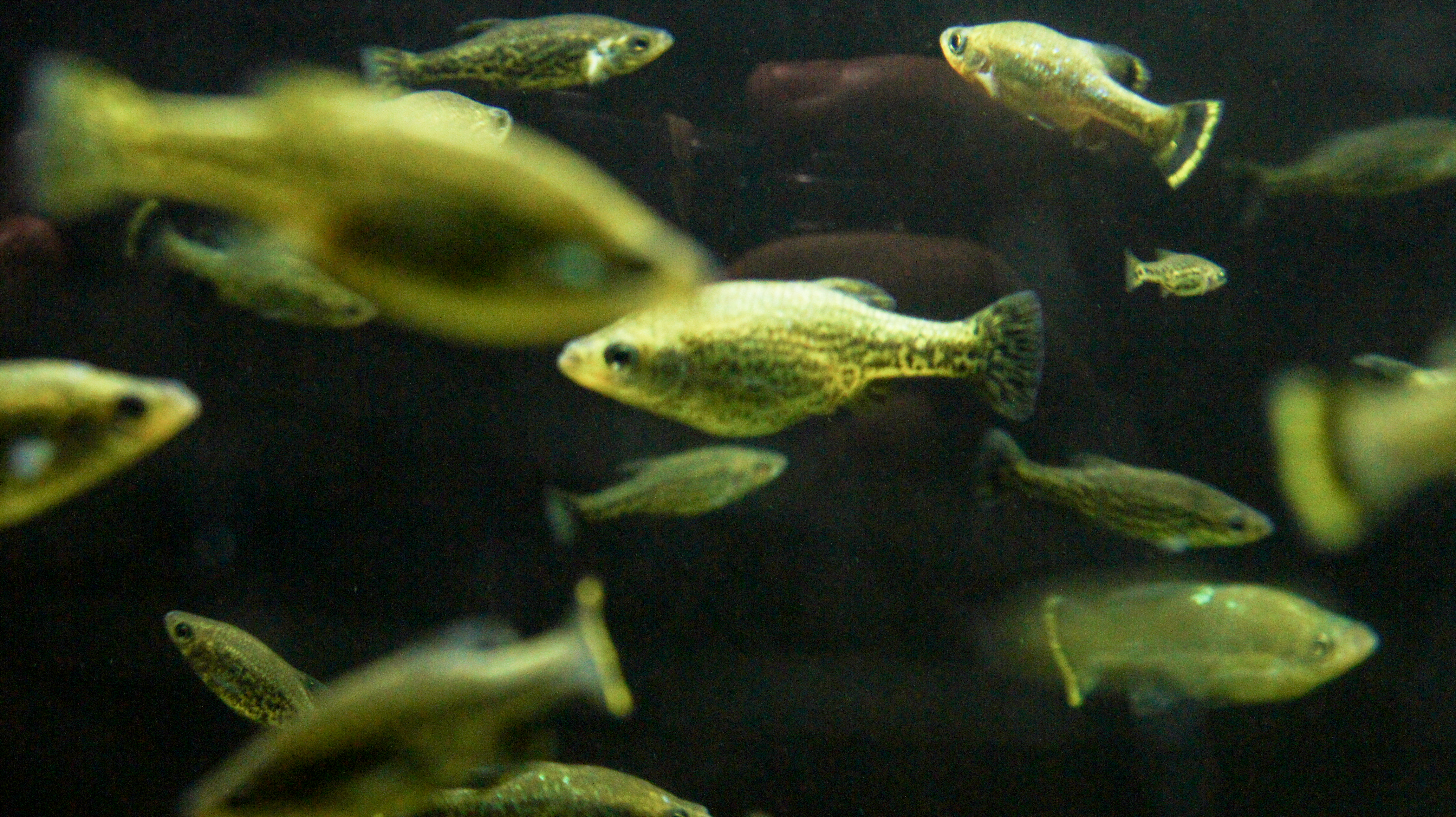 Butterfly splitfin, unluckily out of focus a little with reflection but hey at the time of uploading there were only 2 other photos. Unfortunately there is some reflection and you can see camera